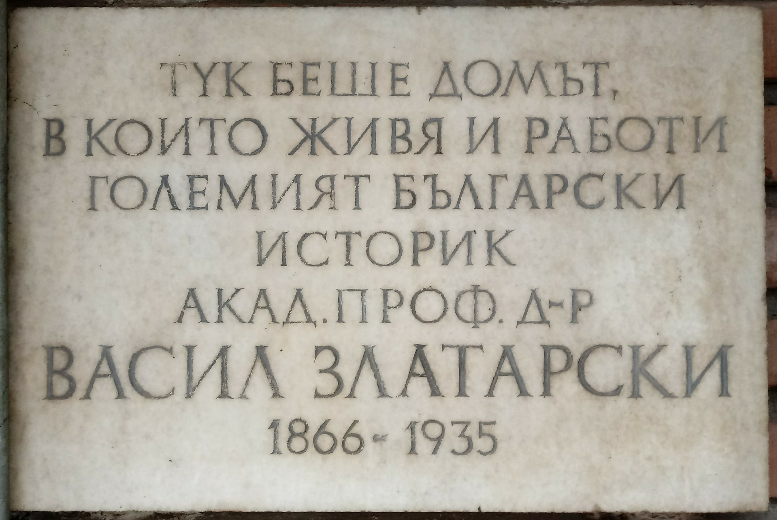 Vasil Zlatarski memorial plaque, 8 Prof. Asen Zlatarov Str. Sofia